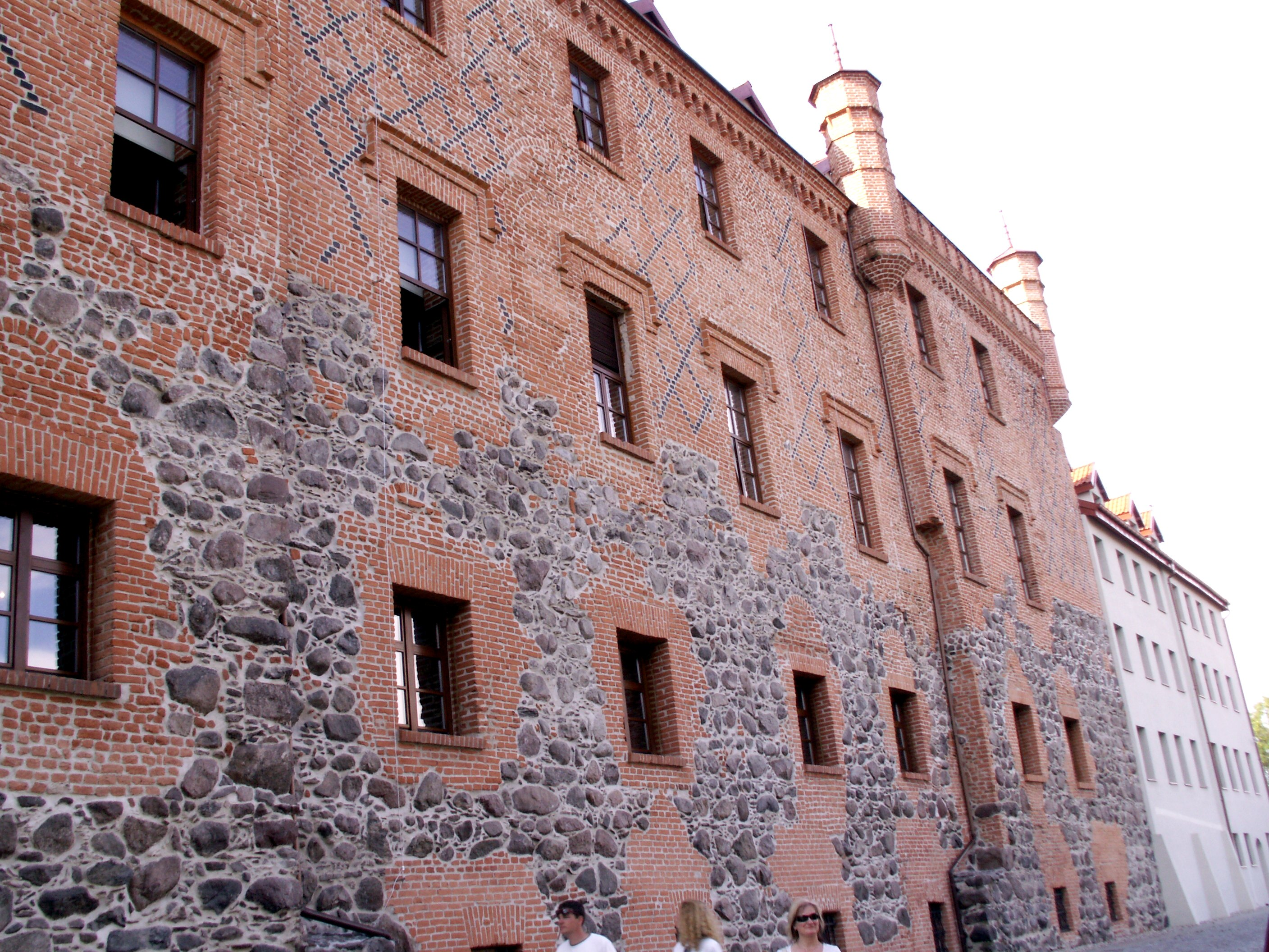 Ryn castle